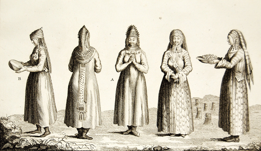 Bashkirs women. Mishars' women. Engraving by N. Thomas from Illustrations de Voyages de Pallas en différentes provinces de l'Empire de Russie et dans l'Asie Septentrionale by Peter Simon Pallas, published by Maradan (Paris) 1794.